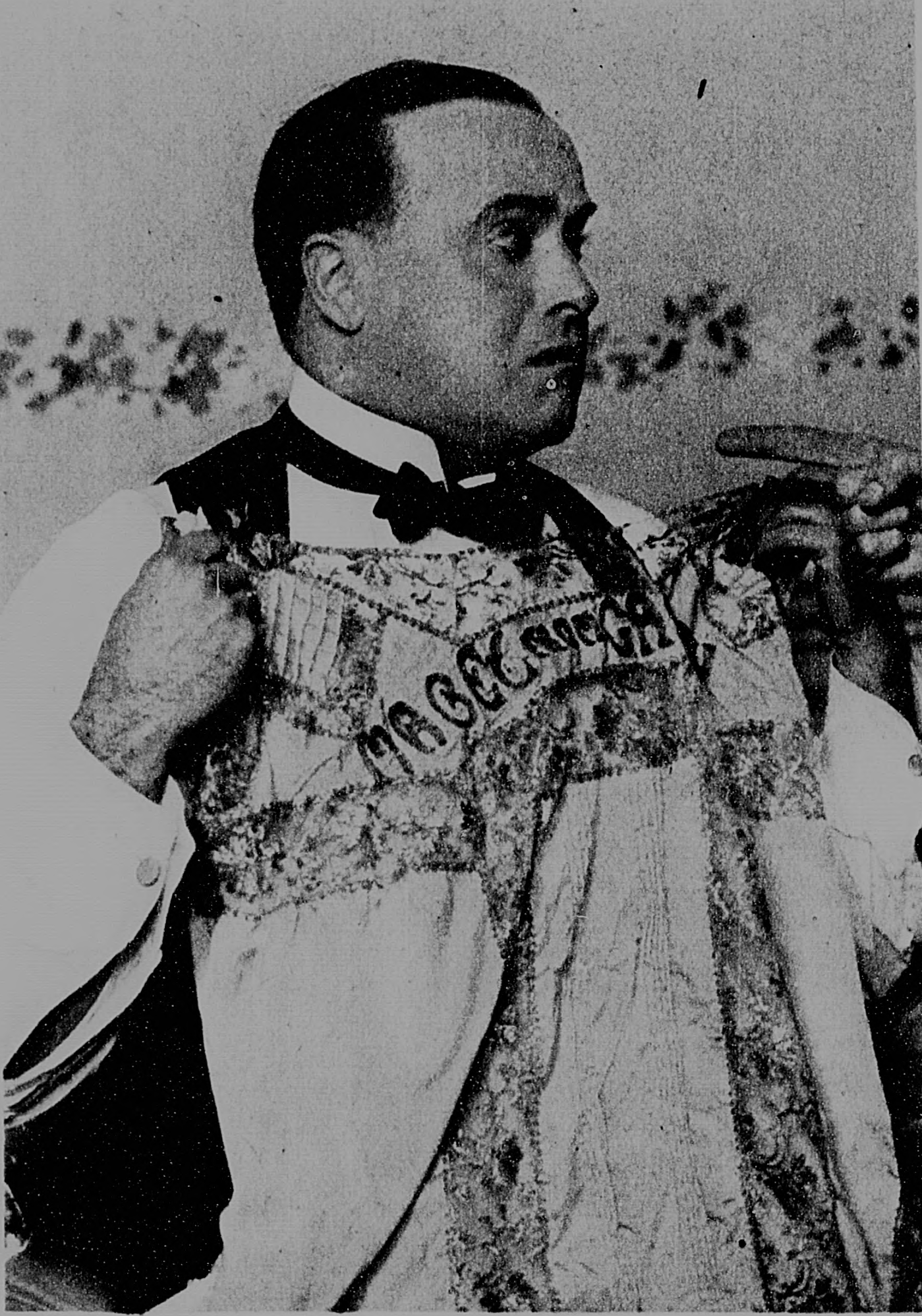 Canadian actor John Cumberland in the Broadway comedy Up in Mabel's Room in 1919.